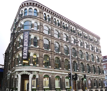 Menier Chocolate Factory, London. Photo by ExpressingYourself, 2009.